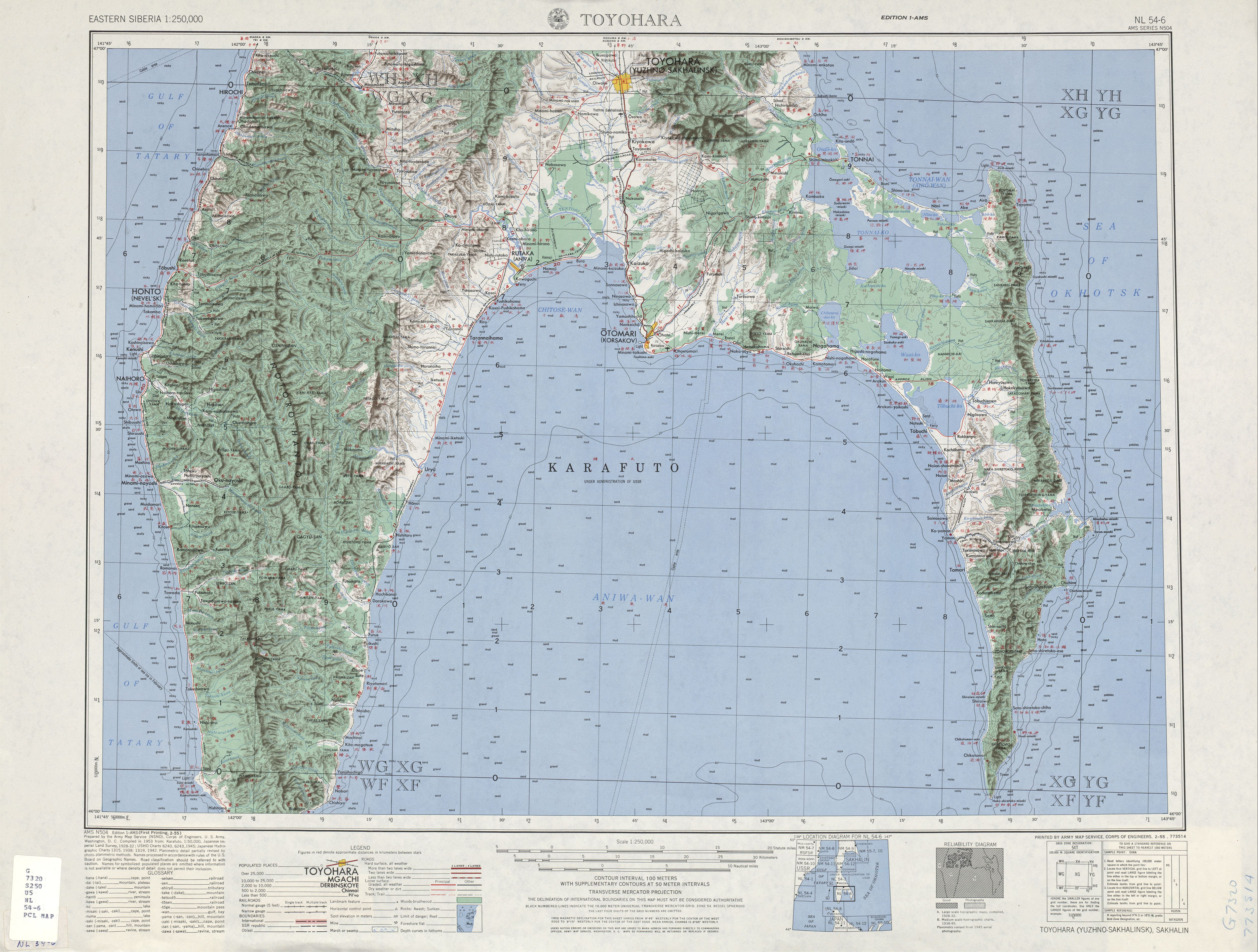 List from Eastern Siberia AMS Topographic Maps. Series N504, U.S. Army Map Service, 1947